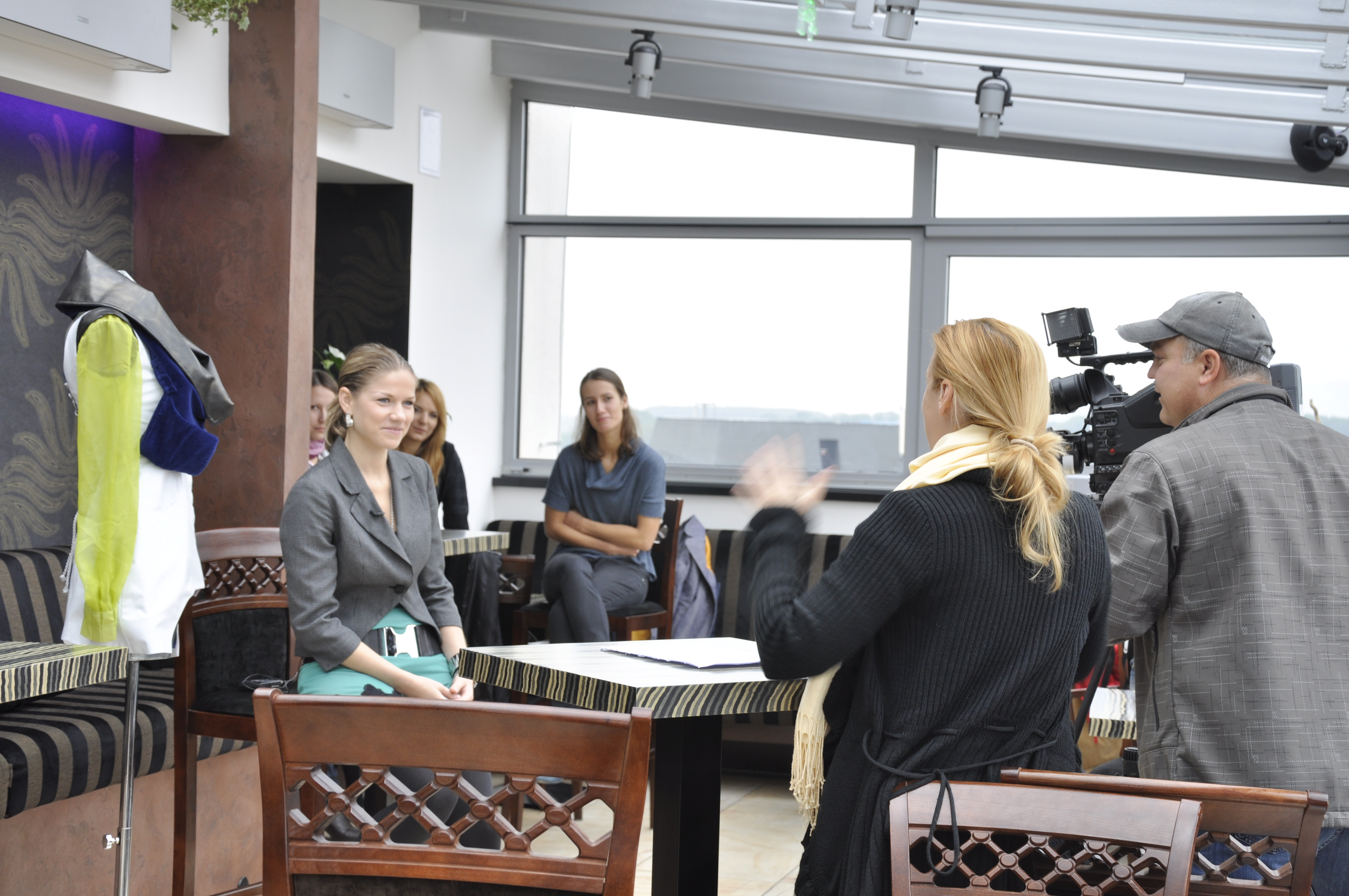 Zuzana Kralova media interview at Bratislava at Brillance Fashion Talent 2010